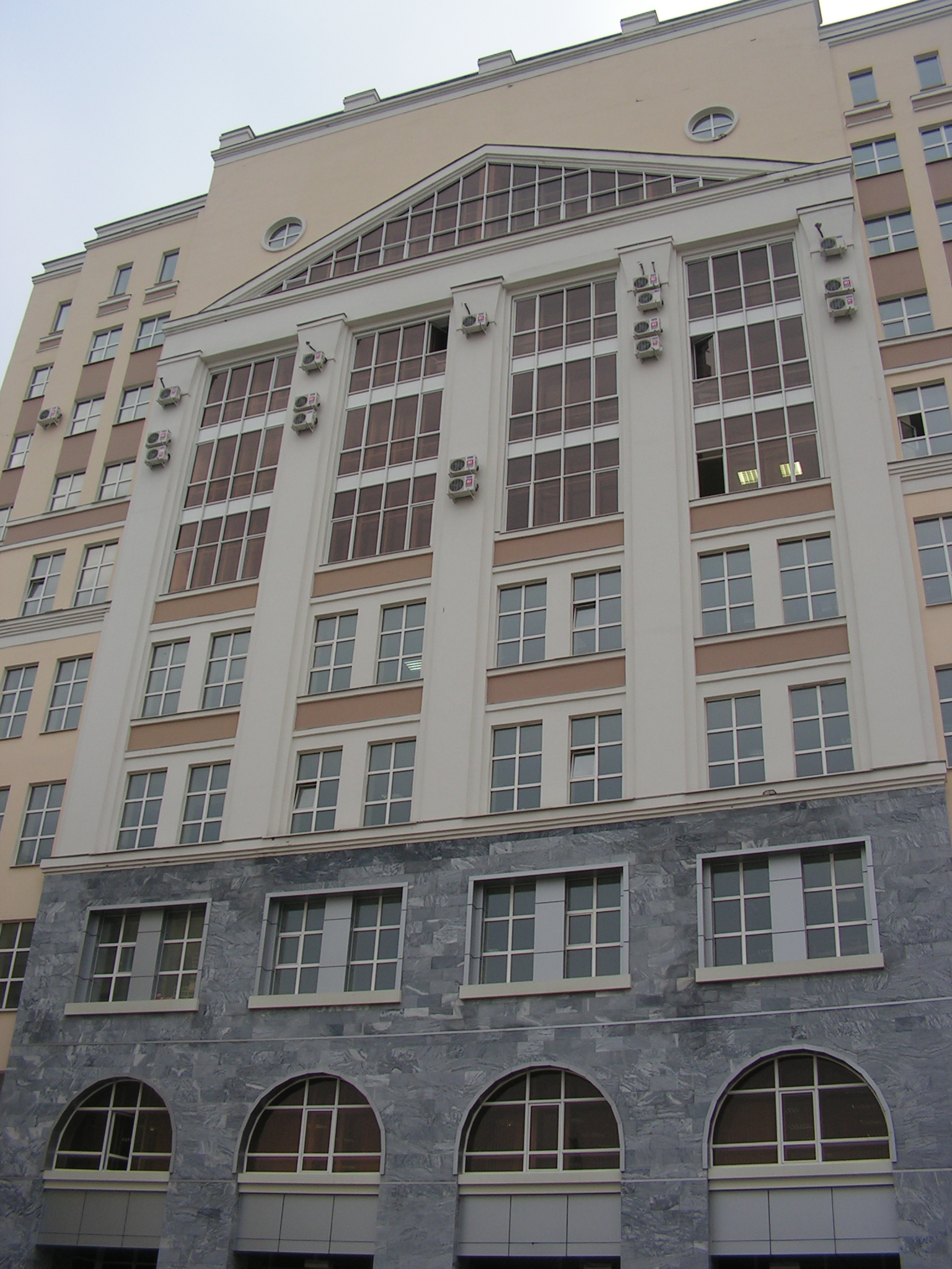 VSU - building of the law faculty